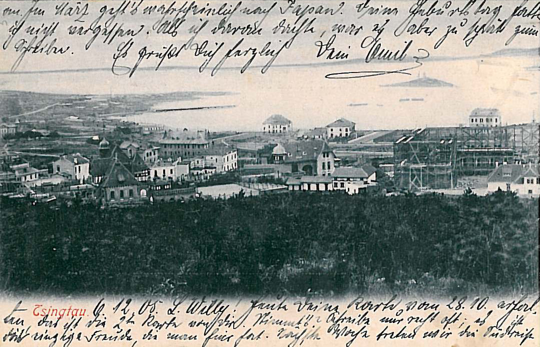 historical view of Qingdao